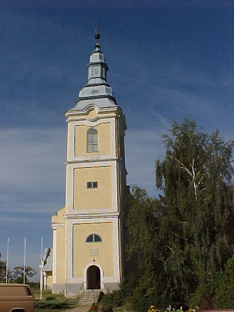 Reformed church in Ramocsaháza, Hungary